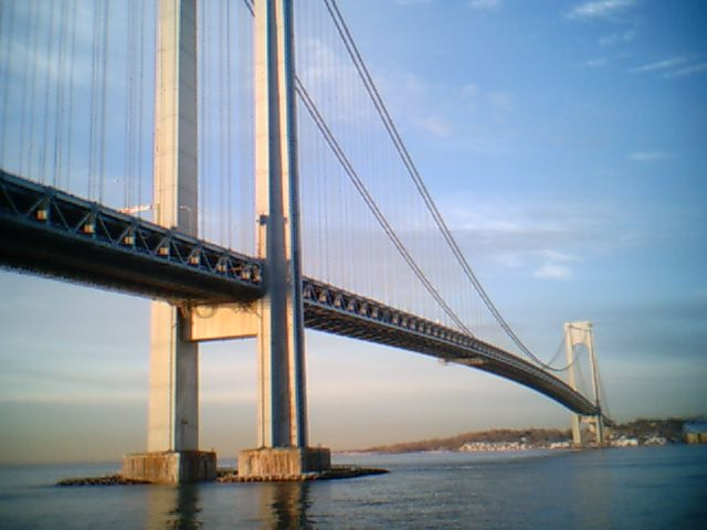 Verrazano Narrows Bridge, New York, NY, USA. Image taken from Brooklyn at dawn. Staten Island can be seen in the background.